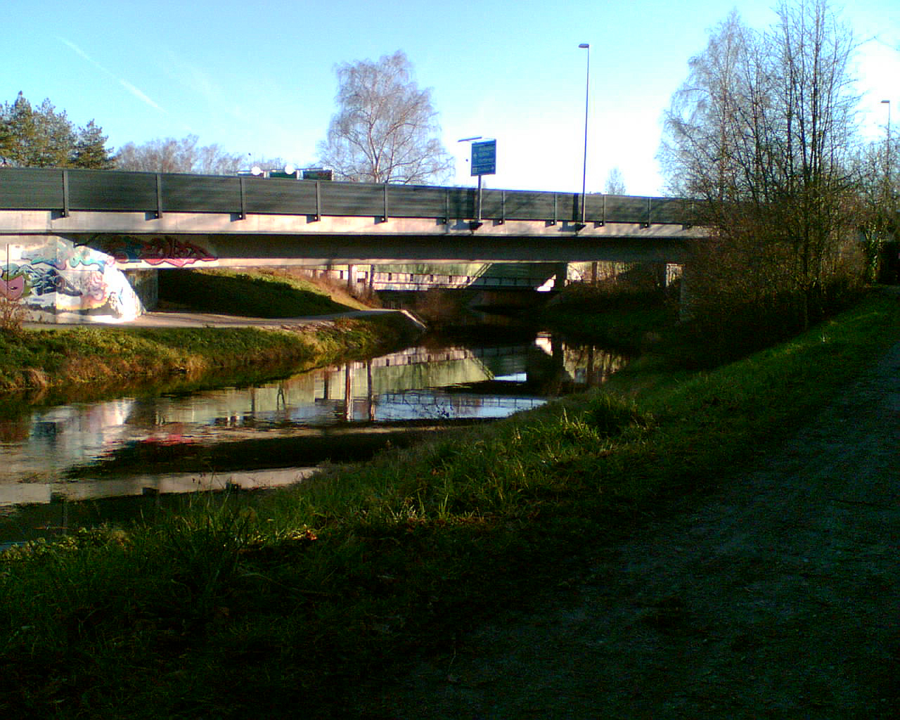 The river Glatt in Glattbrugg (Switzerland), crossed by motorway bridges